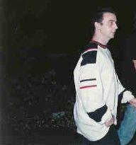 Paul McGuigan, formerly of Oasis, 1998.